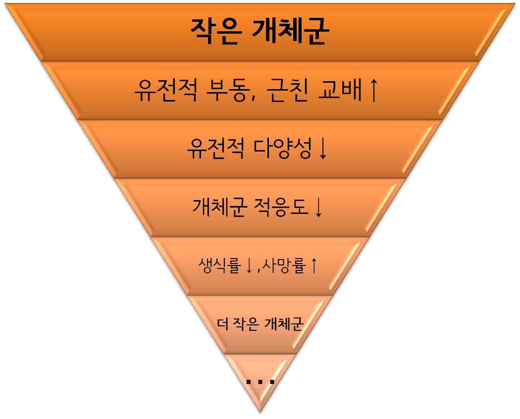 Extinction Vortex written in Korean